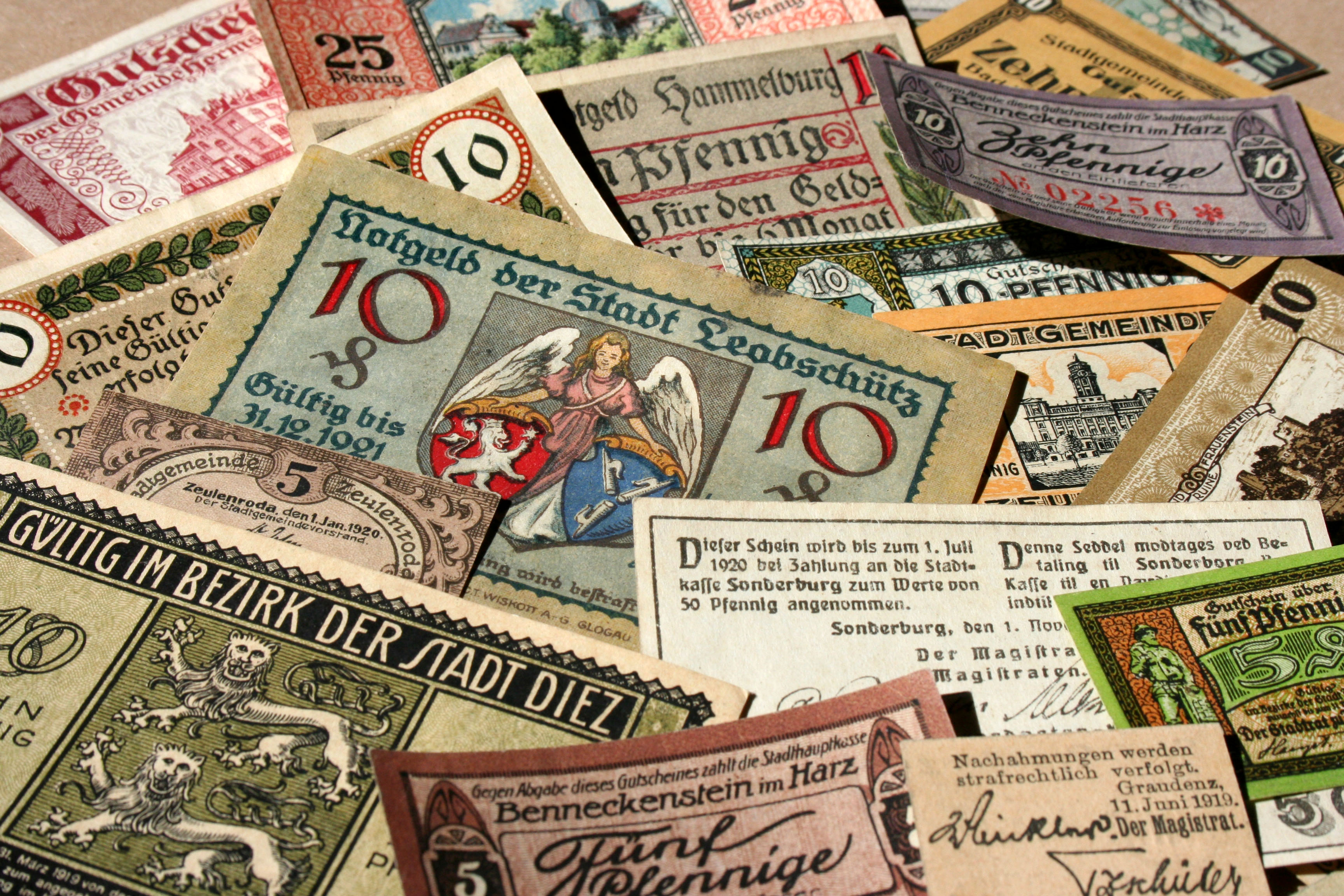 German banknotes in 1917-1920, the town money - At the end of WWI, in different cities doing their own money. The lack of time, many remained in circulation. The city's mayor, endorsed the signing of money.